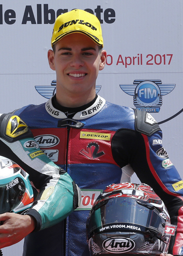 Augusto Fernández on the podium of the 2017 CEV Moto2 Albacete race.